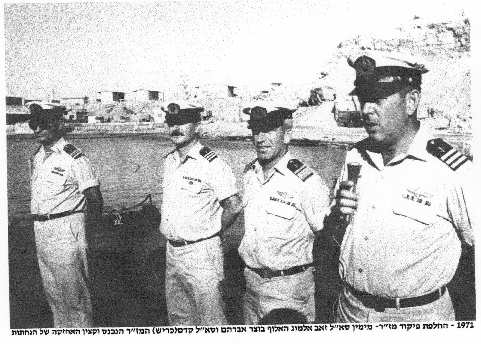 Israel Defense Forces